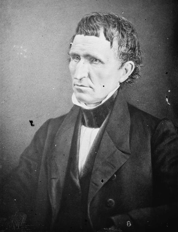 South Carolina politician George McDuffie.